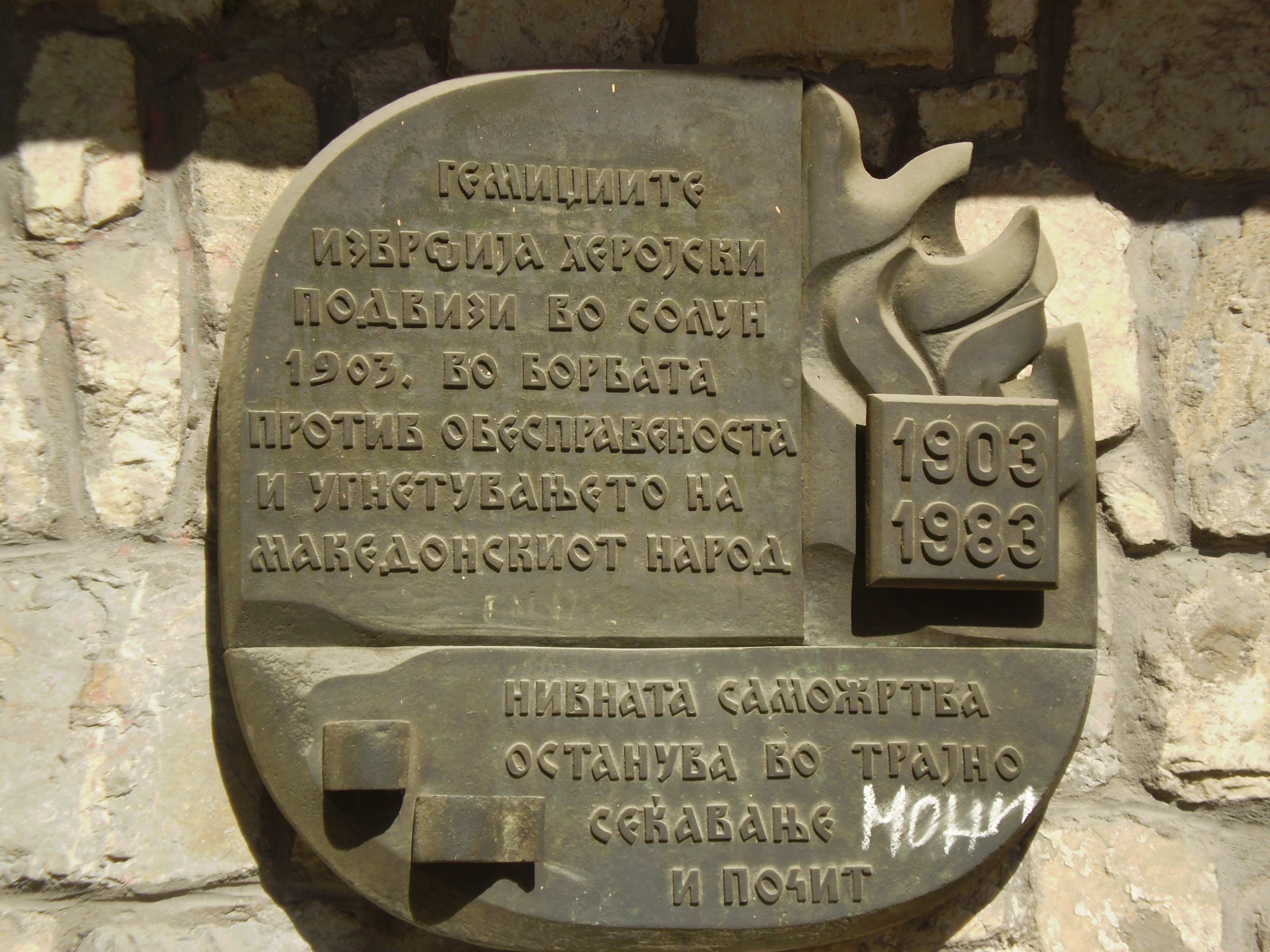 Plaque of the Gemedjii — IMARO.